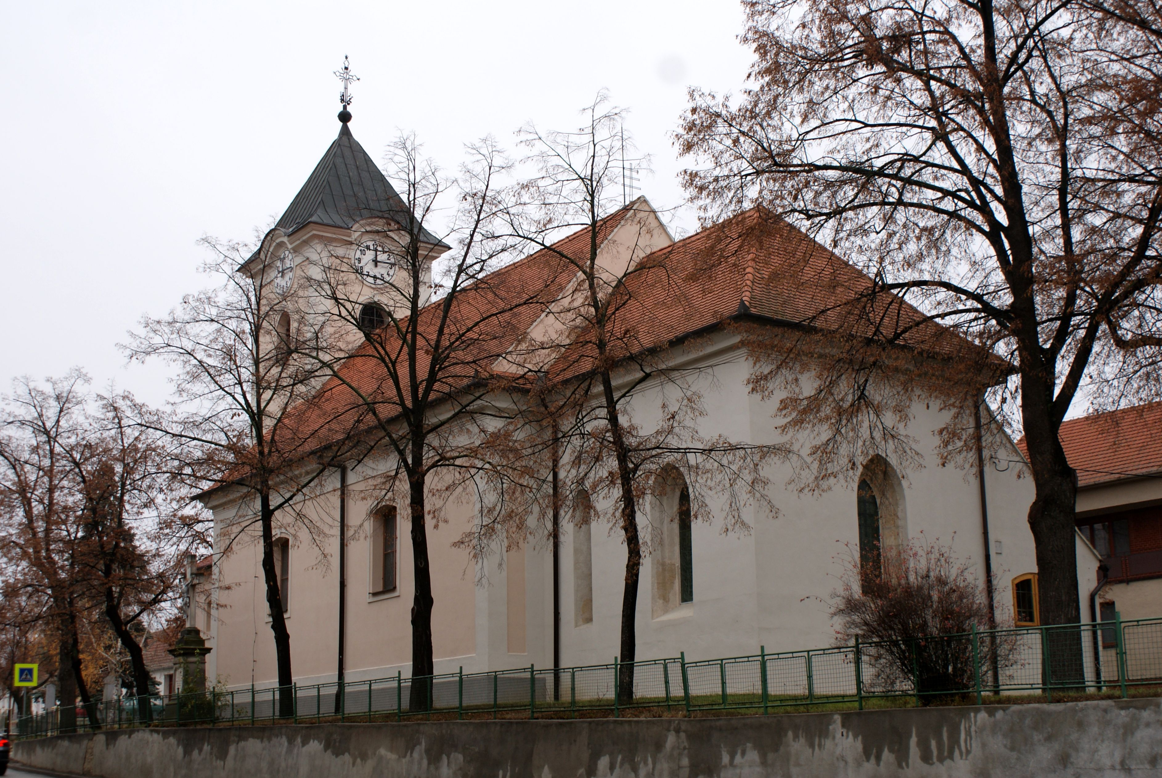 Šakvice, church seen from behind